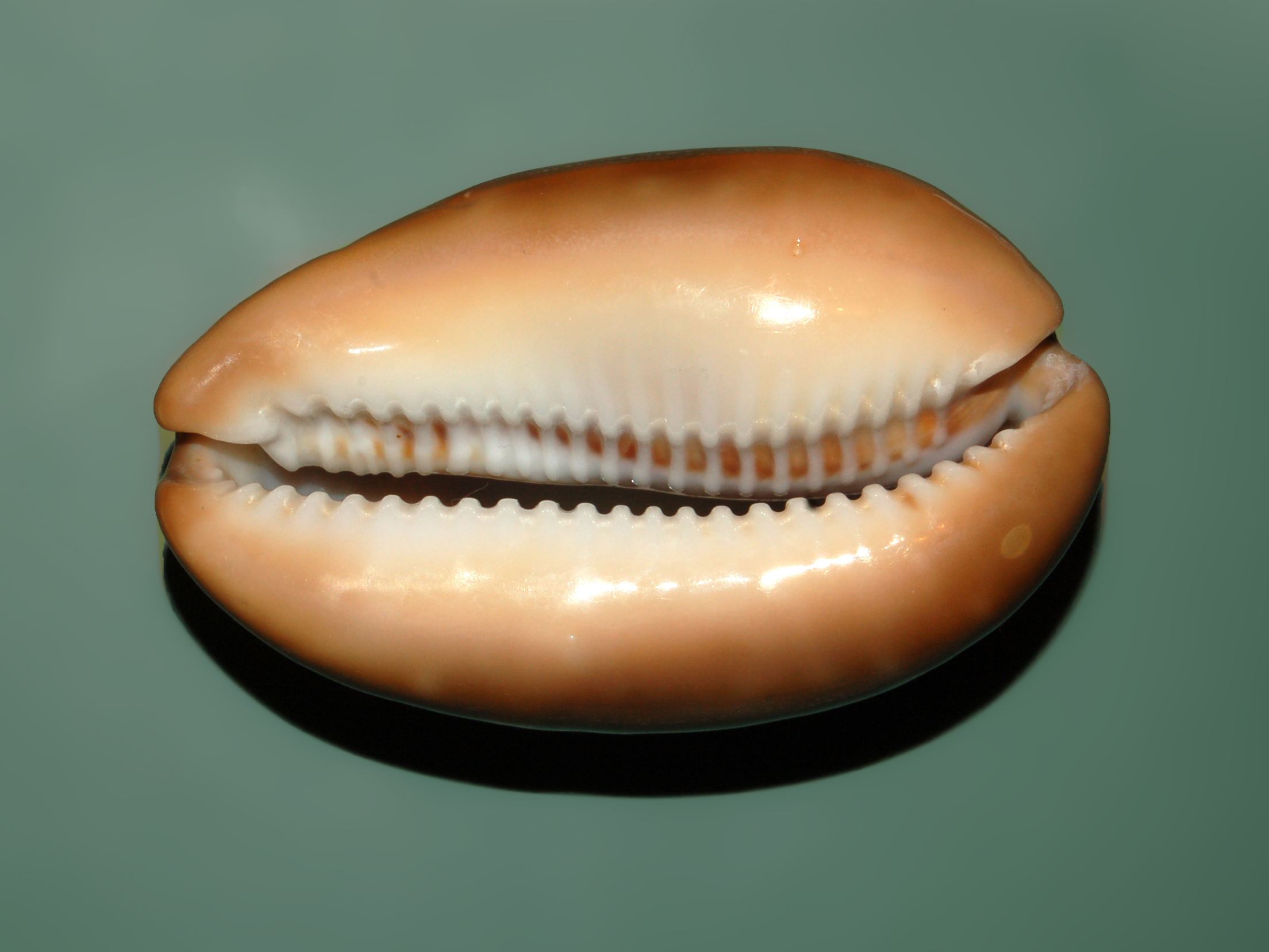 Lyncina ventriculus, Leyete, Philippines